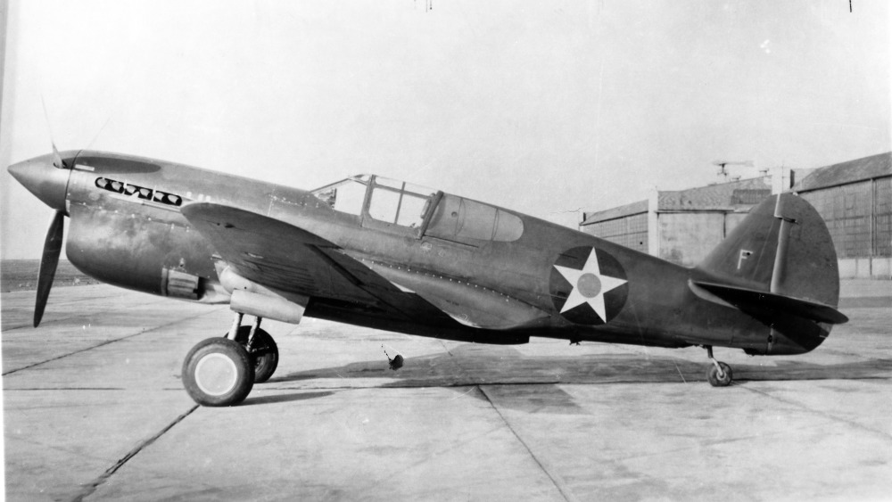 PictionID:40972556 - Title:Warhawk Curtiss P-40F - Catalog:15_002749 - Filename:15_002749.tif - Image from the Charles Daniels Photo Collection album "US Army Aircraft."----PLEASE TAG this image with any information you know about it, so that we can permanently store this data with the original image file in our Digital Asset Management System.----SOURCE INSTITUTION: San Diego Air and Space Museum Archive